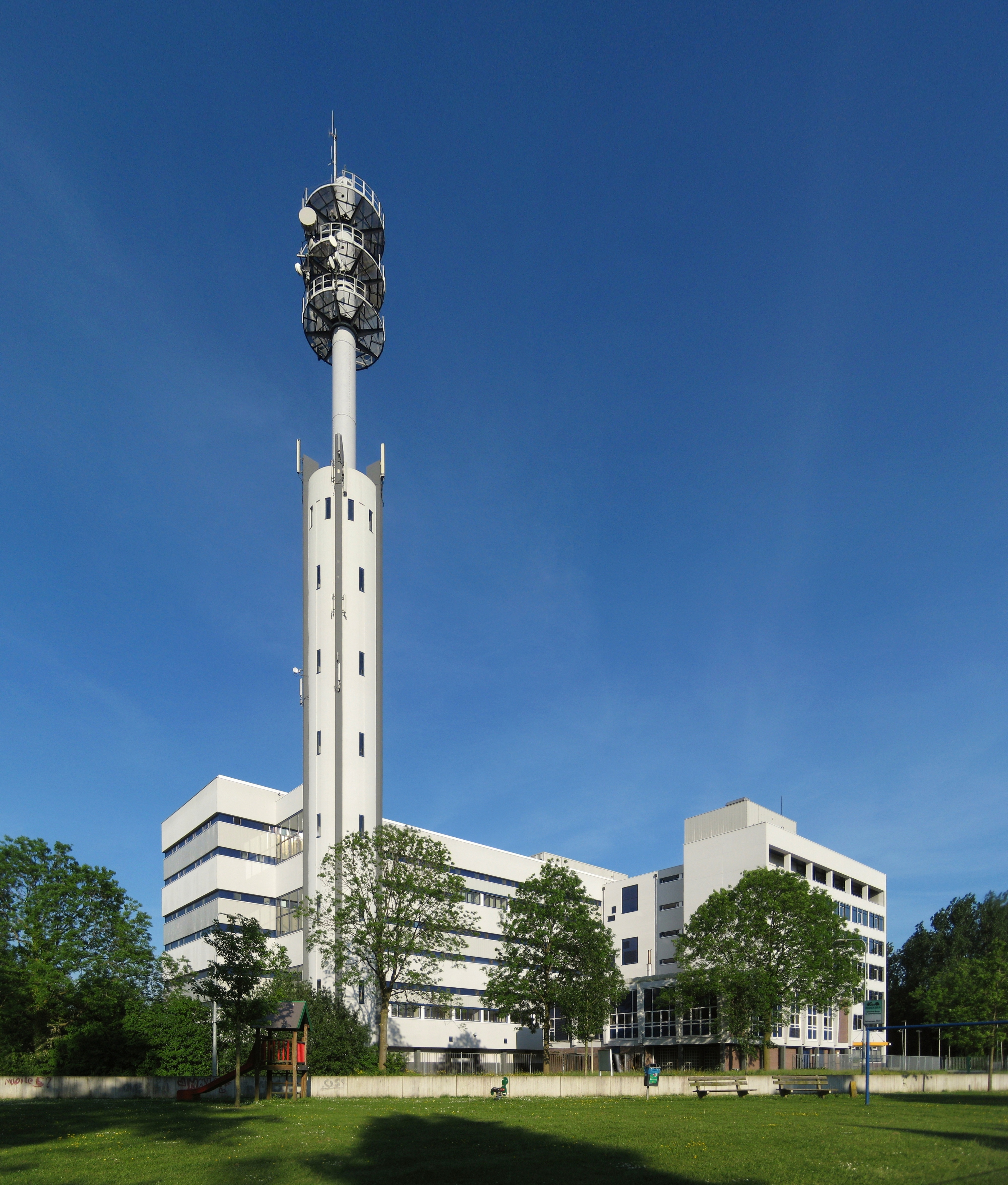 KPN telephone exchange with antenna tower (1968-1972) in the Dutch city of Groningen.